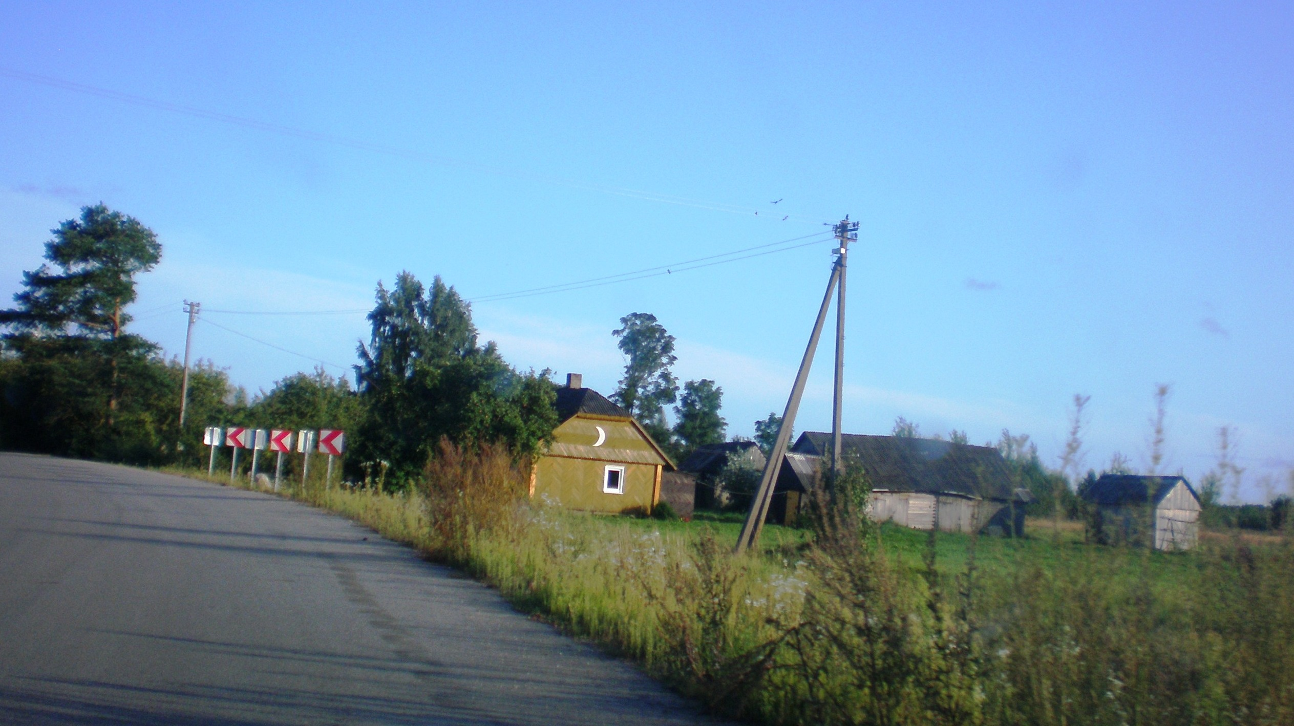 Tatar house, Ruseiniai village, Kėdainiai district, Lithuania